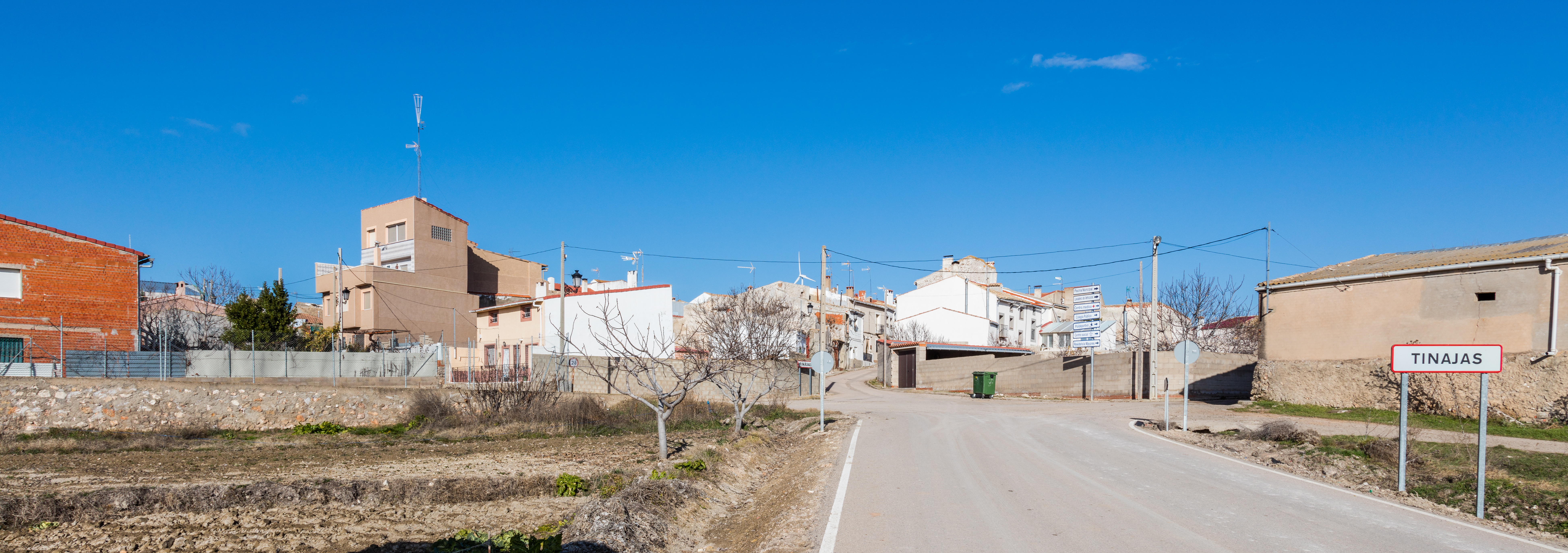 Tinajas, Cuenca, Spain